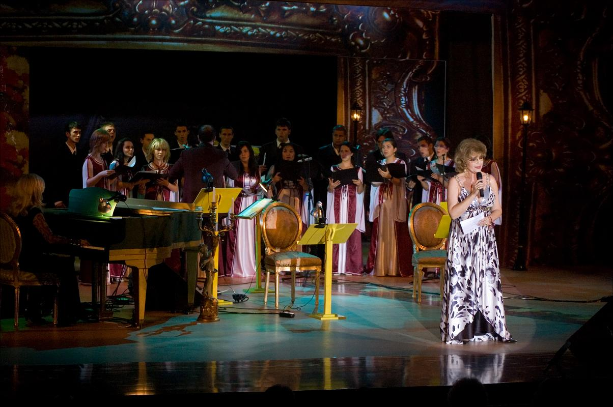 Crizantema de Aur 2009